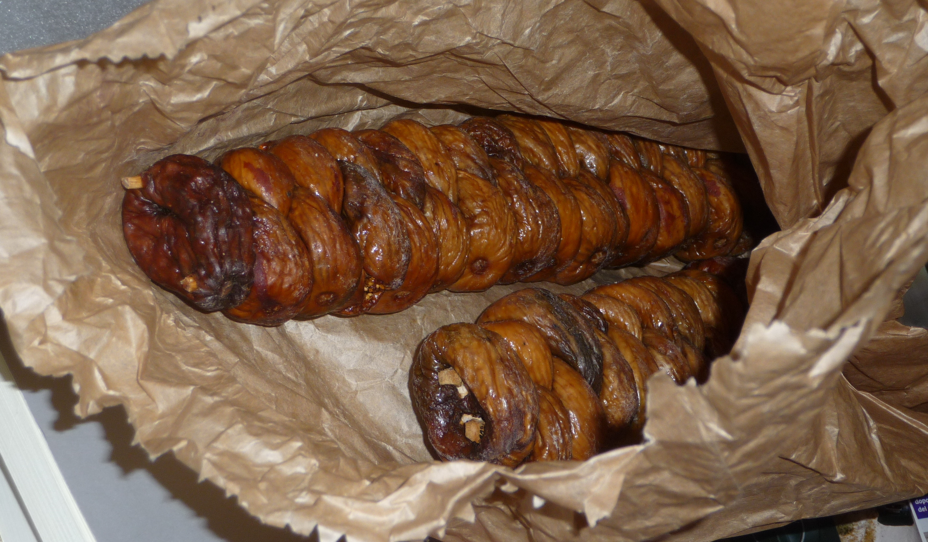 calabrian "Schiocca" of dried figs